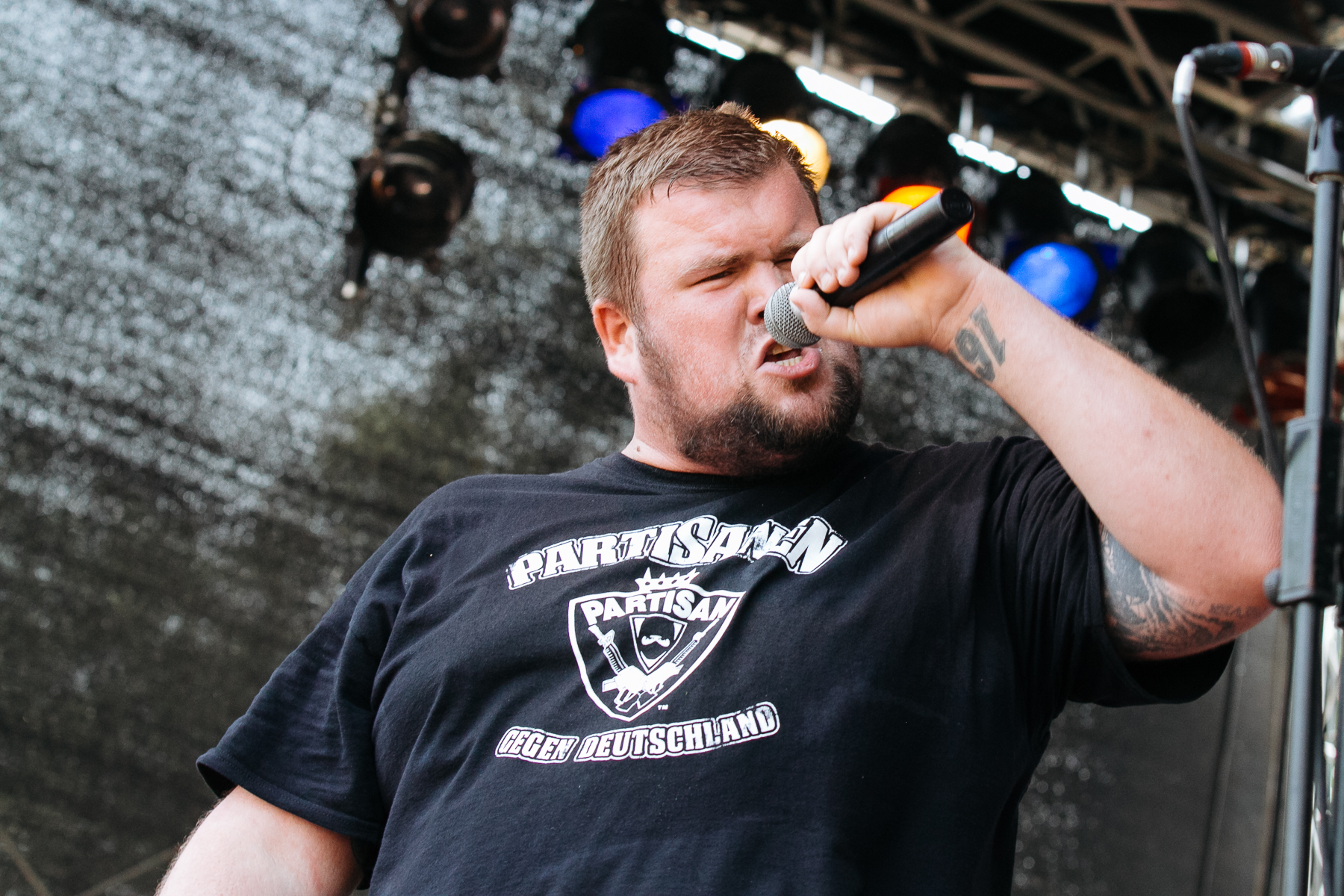 Feine Sahne Fischfilet at Vainstream 2015